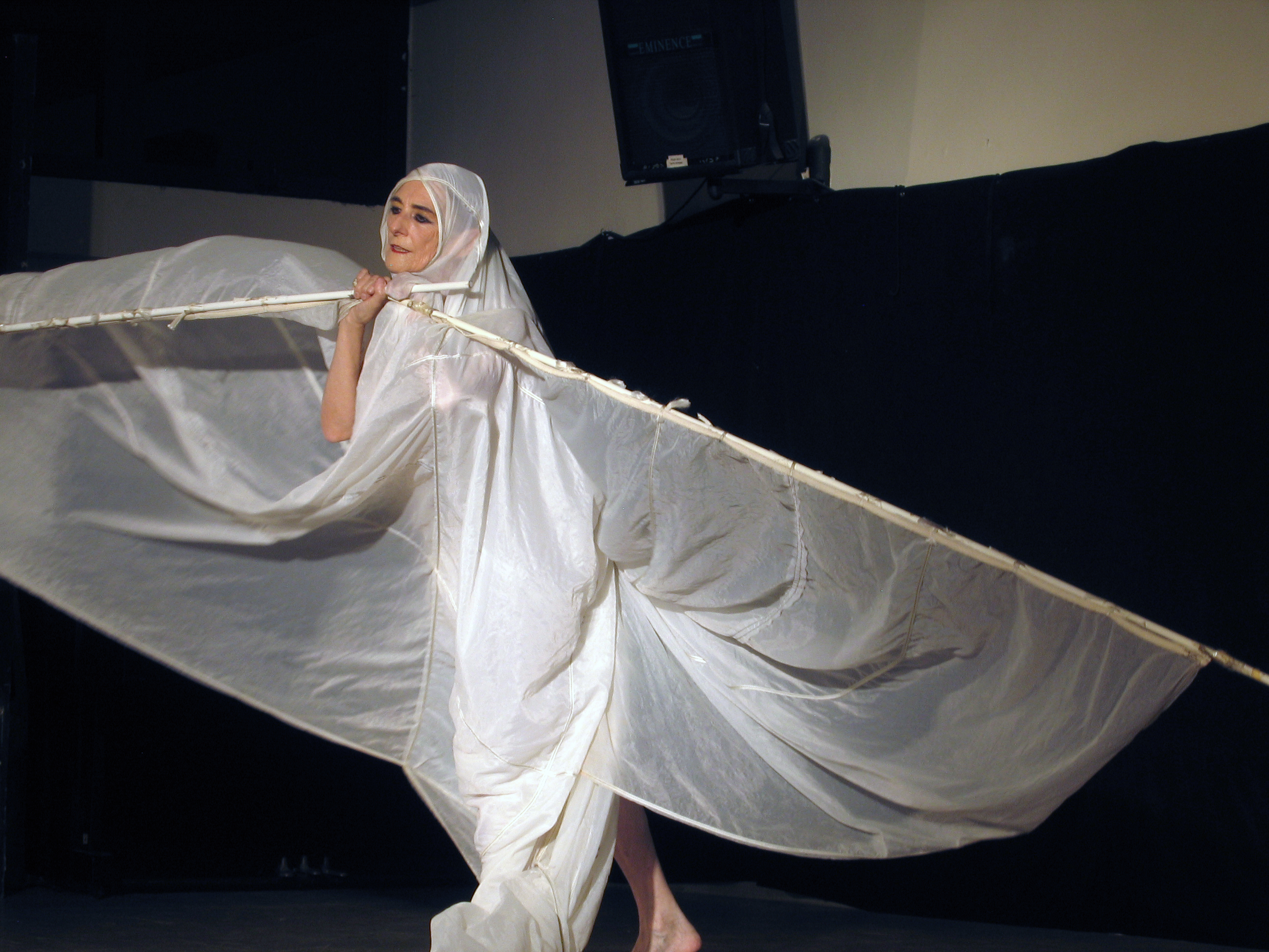 Rina Schenfeld 2011